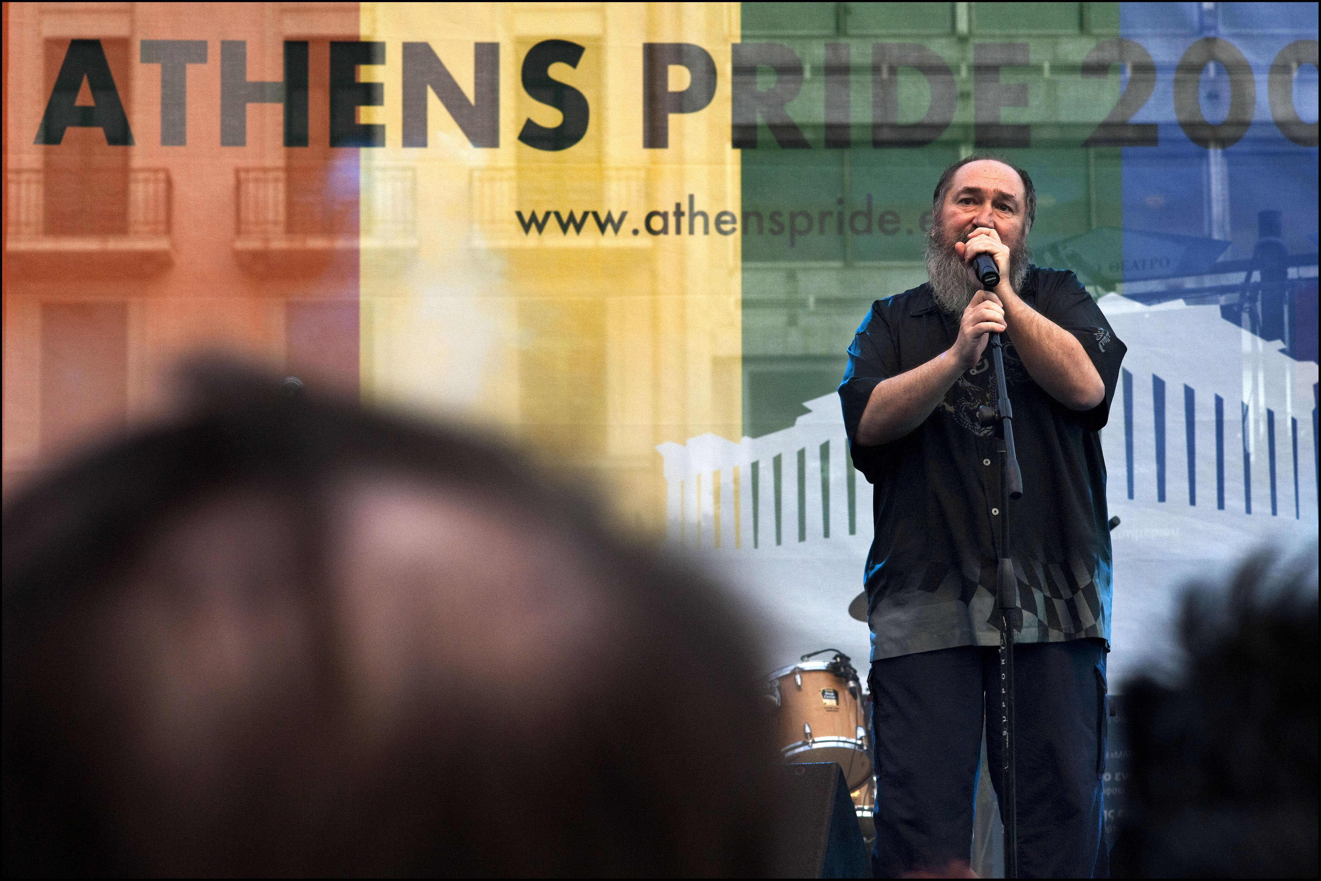 Portrait of Tzimis Panousis (Greek musician / comedian) / photograph from the live performance at Athens Pride 2009 / Kalthmonos square, Athens.